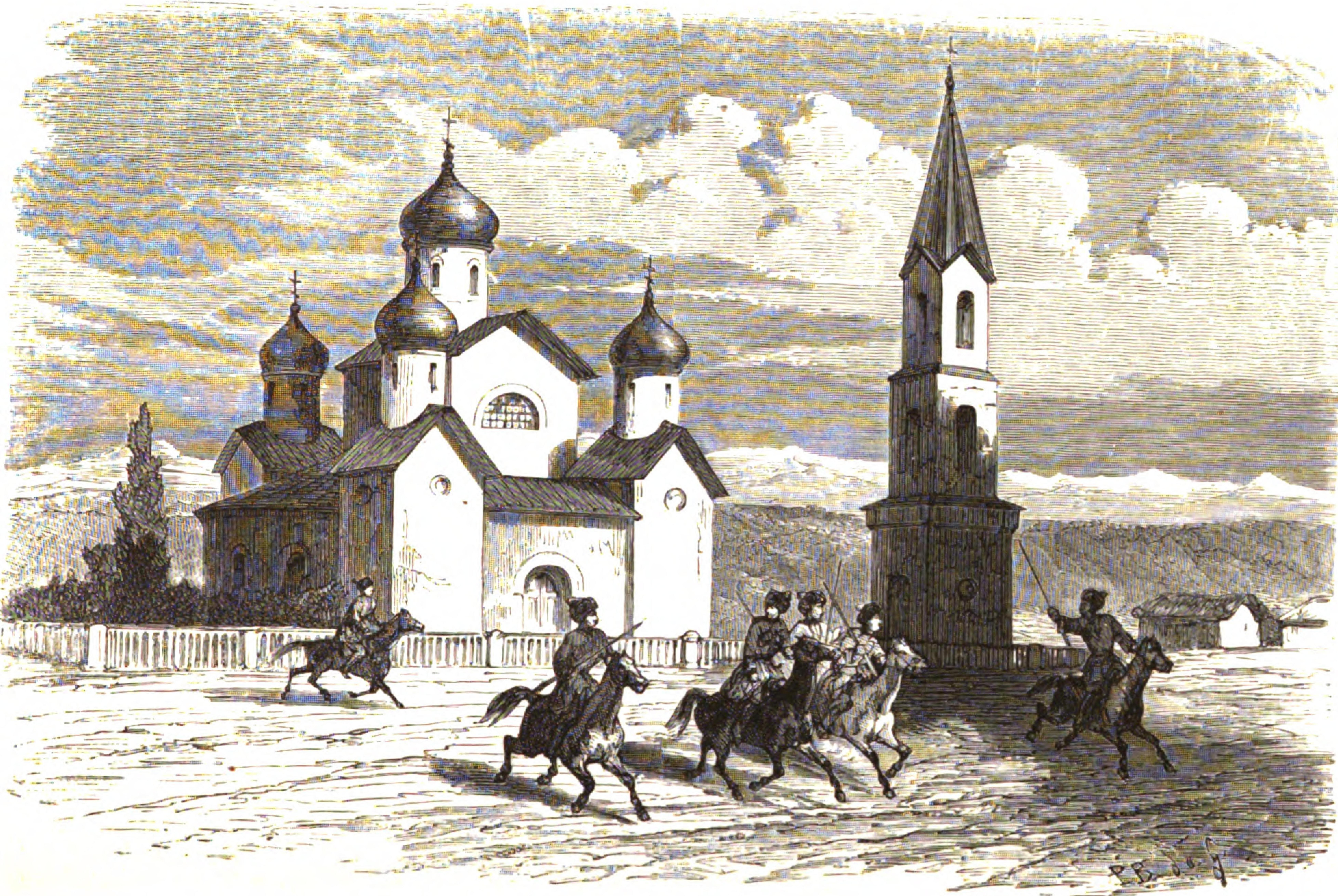 Floriant Gille. Lettres sur le Caucase et la Crimée. 1859